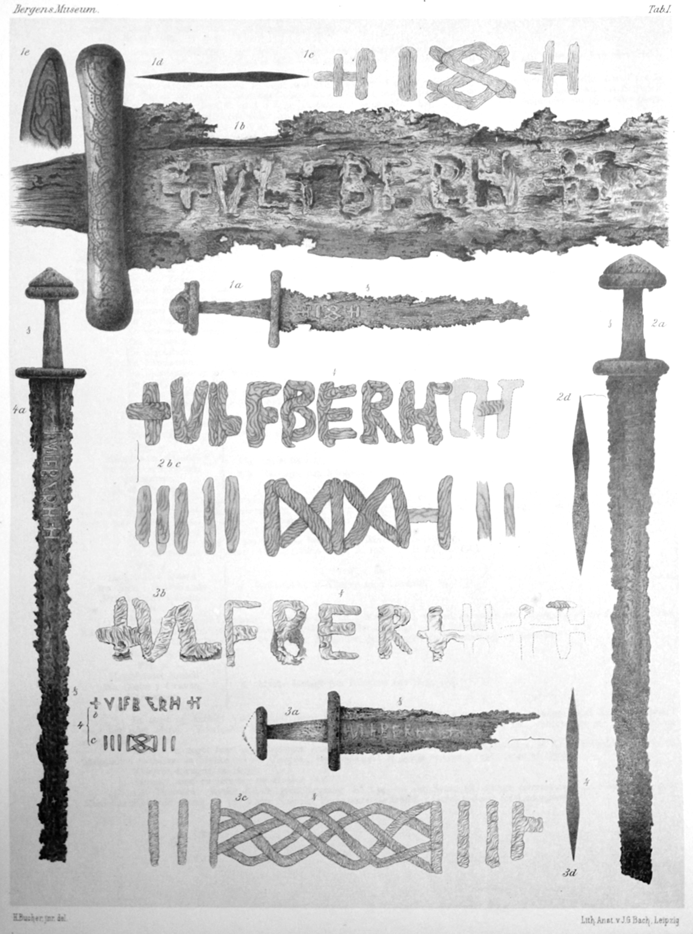 Lorange (1889) Table I, Ulfberht swords from Bergen Museum. Fig. 1. Haugfundet Svaerd fra Vad i Etne, Sondhordland, B. M. No. 961. Fig. 2. Haugfundet Svaerd fra Sundalen i Dale S., Ytre Homedals Prstg., Sondfjord. B. M. No. 2944. Fig. 3. Haugfundet Svaerd fra Eid i Nordfjord. B. M. No. 3149. Fig. 4. Haugfundet Svaerd fra Visnaes i Stryn, Nordfjord. B. M. No. 1483.